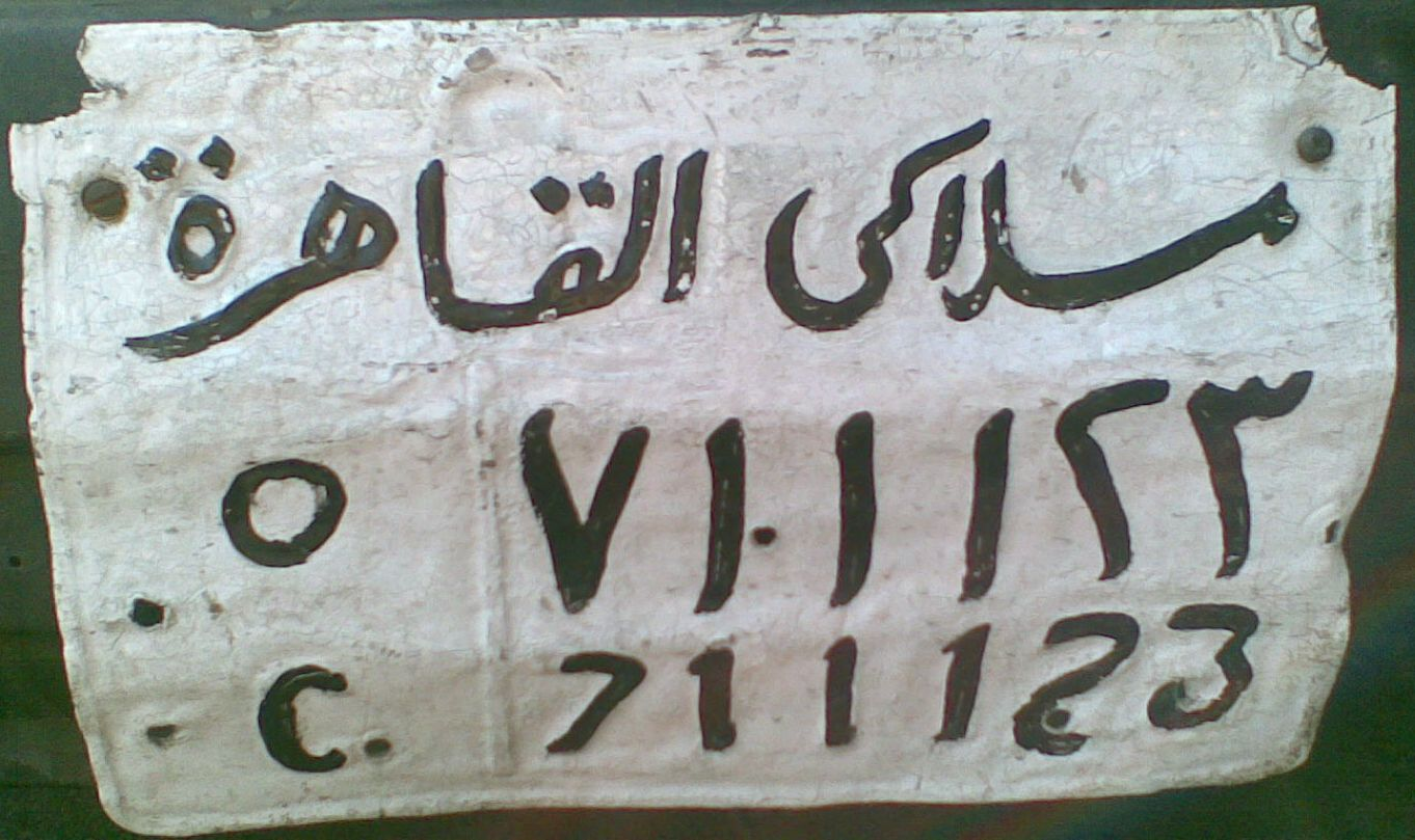 1970s Egyptian vehicle registration number